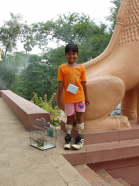 Three decades of war in Cambodia have left scars in many forms throughout the country. Unfortunately, one of the most lasting legacies of the conflicts continues to claim new victims daily. Land mines, laid by the Khmer Rouge, the Heng Samrin and Hun Sen regimes, the Vietnamese, the KPNLF, and the Sihanoukists litter the countryside. In most cases, even the soldiers who planted the mines did not record where they were placed. Now, Cambodia has the one of the highest rates of physical disability of any country in the world. While census data for Cambodia is sketchy, it is generally accepted that more than 40,000 Cambodians have suffered amputations as a result of mine injuries since 1979. That represents an average of nearly forty victims a week for a period of twenty years.